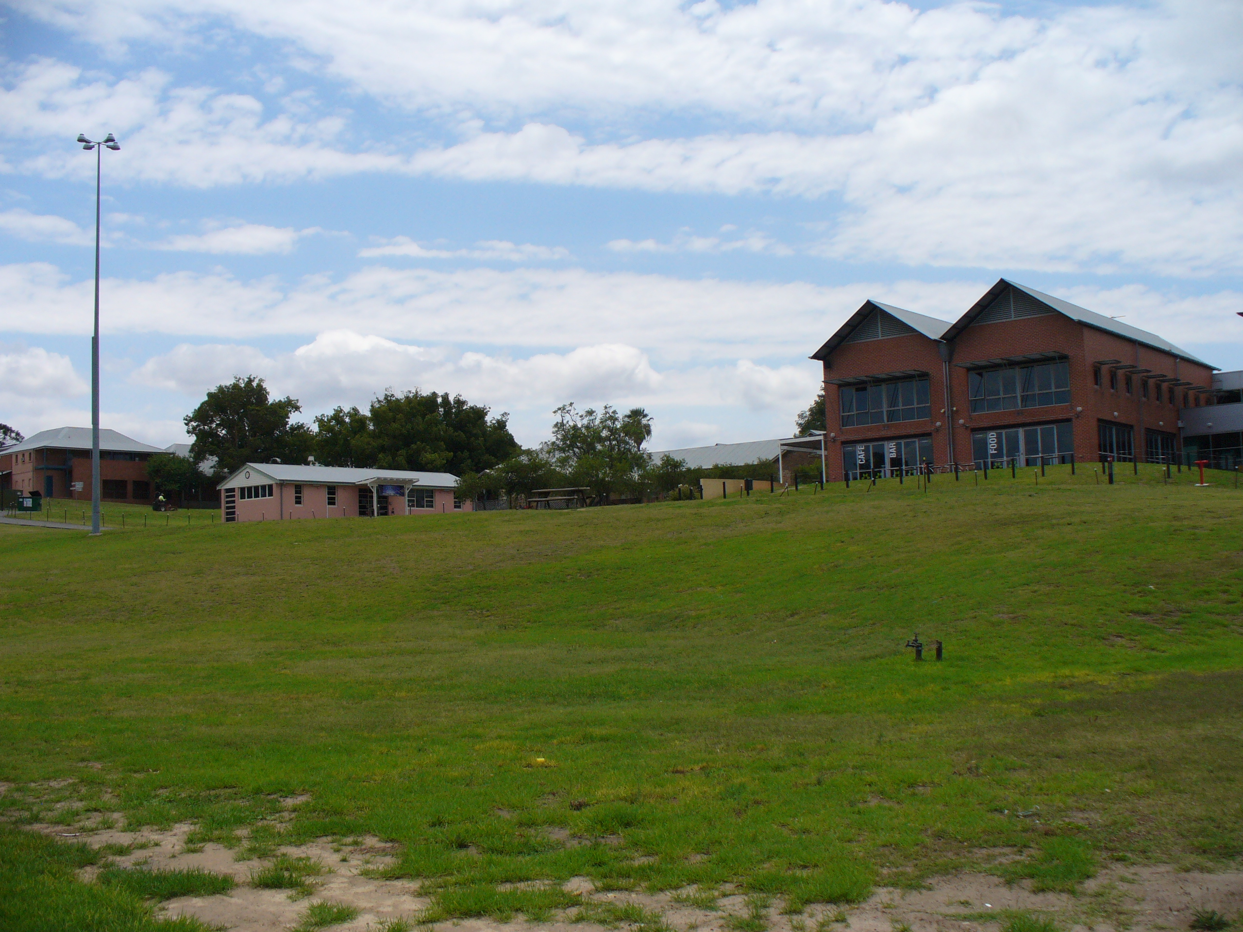 University of Western Sydney, Parramatta Site, Sydney